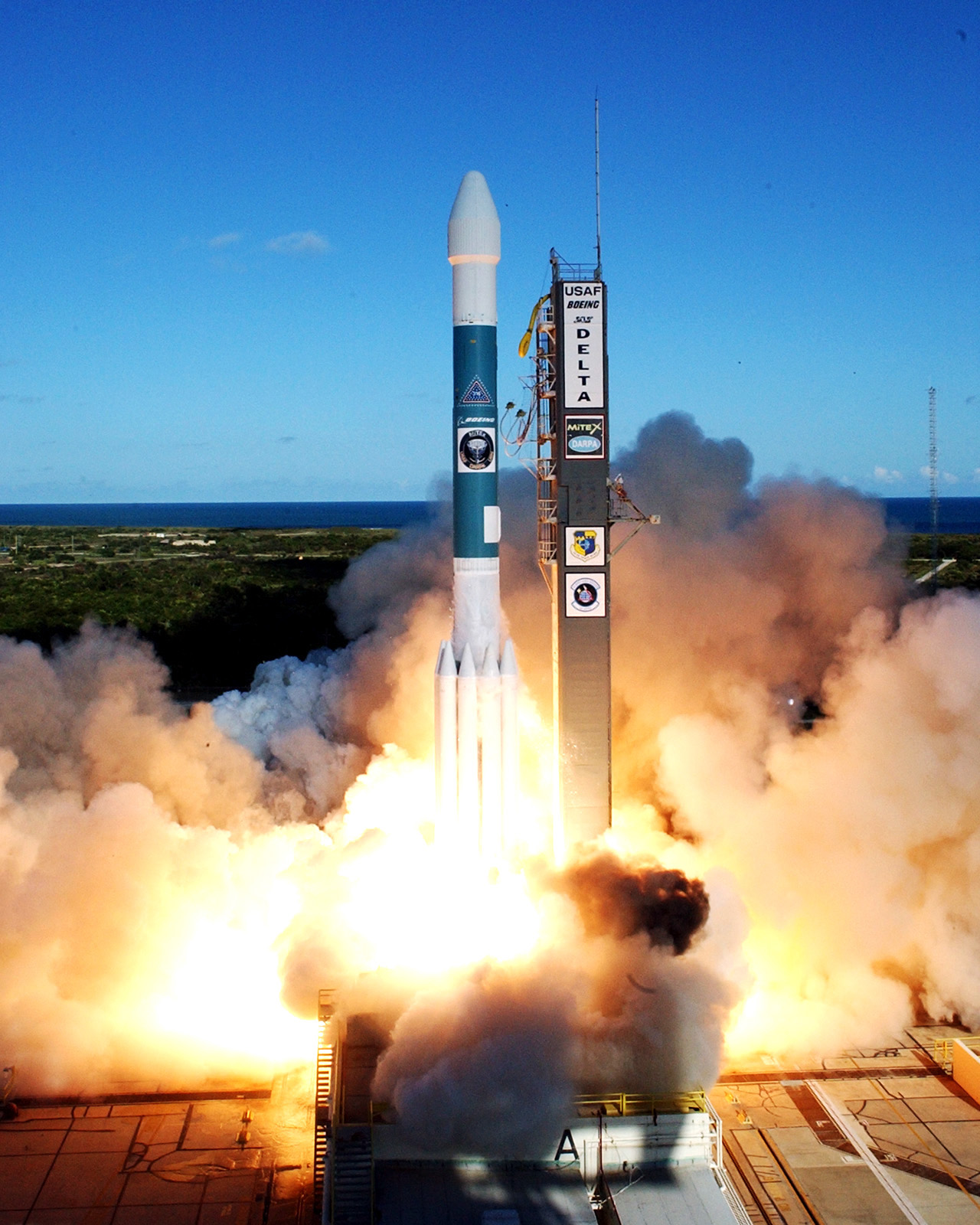 A Delta II 7925 launches the two MiTEx Micro-satellites to geosynchronous transfer orbit (June 21, 2006 22:15 UTC - LC-17A Cape Canaveral Air Force Station). A joint government-industry team launched a Delta II rocket at Cape Canaveral Air Force Station, Fla., on Wednesday, June 21. The payload was a Micro-satellite Technology Experiment designed to support and enhance future U.S. space operations.